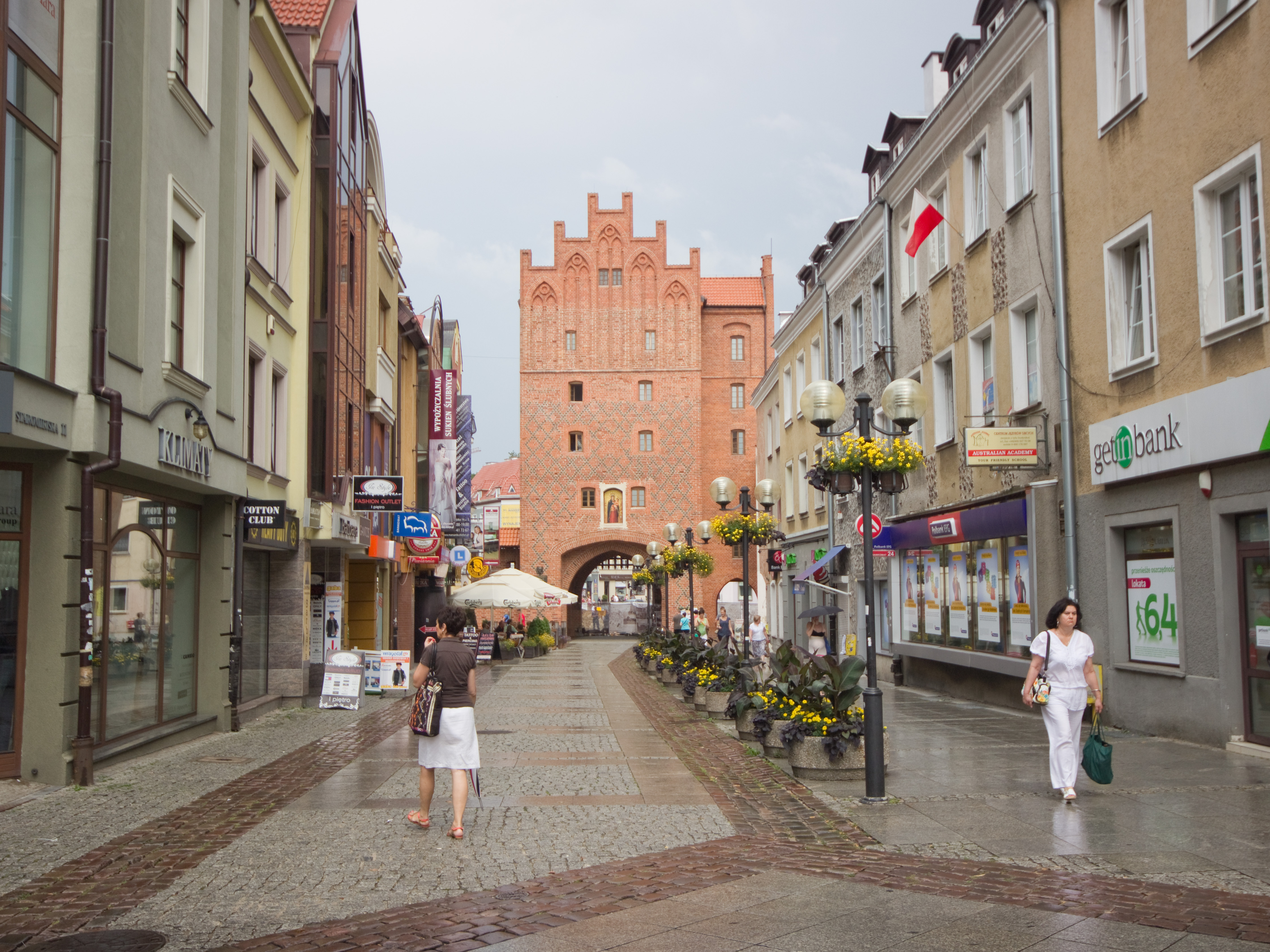 Staromiejska Street in Olsztyn, Poland